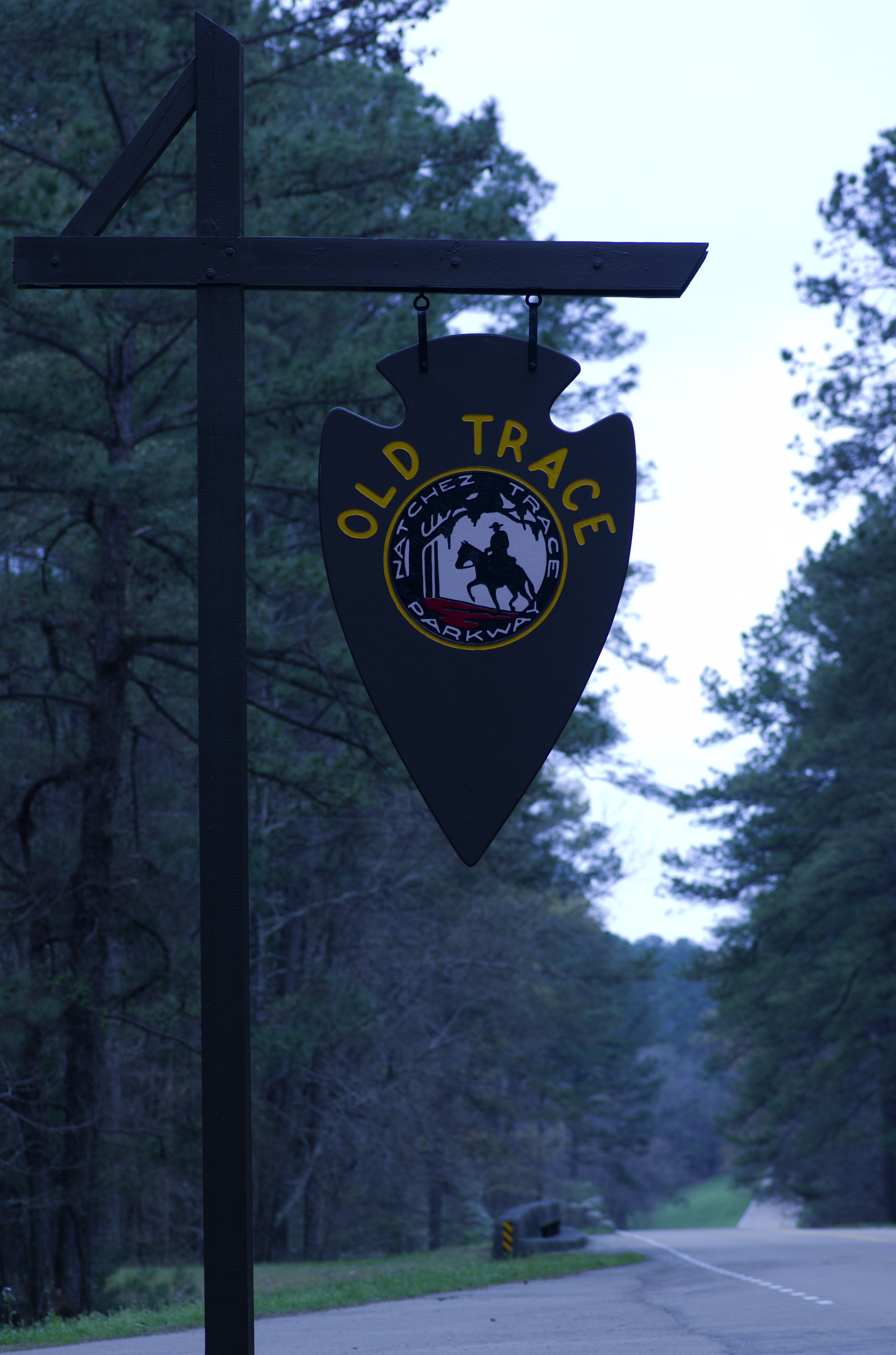 Old Natchez Trace sign along the current Natchez Trace Parkway, SW of Mathiston, Mississippi.